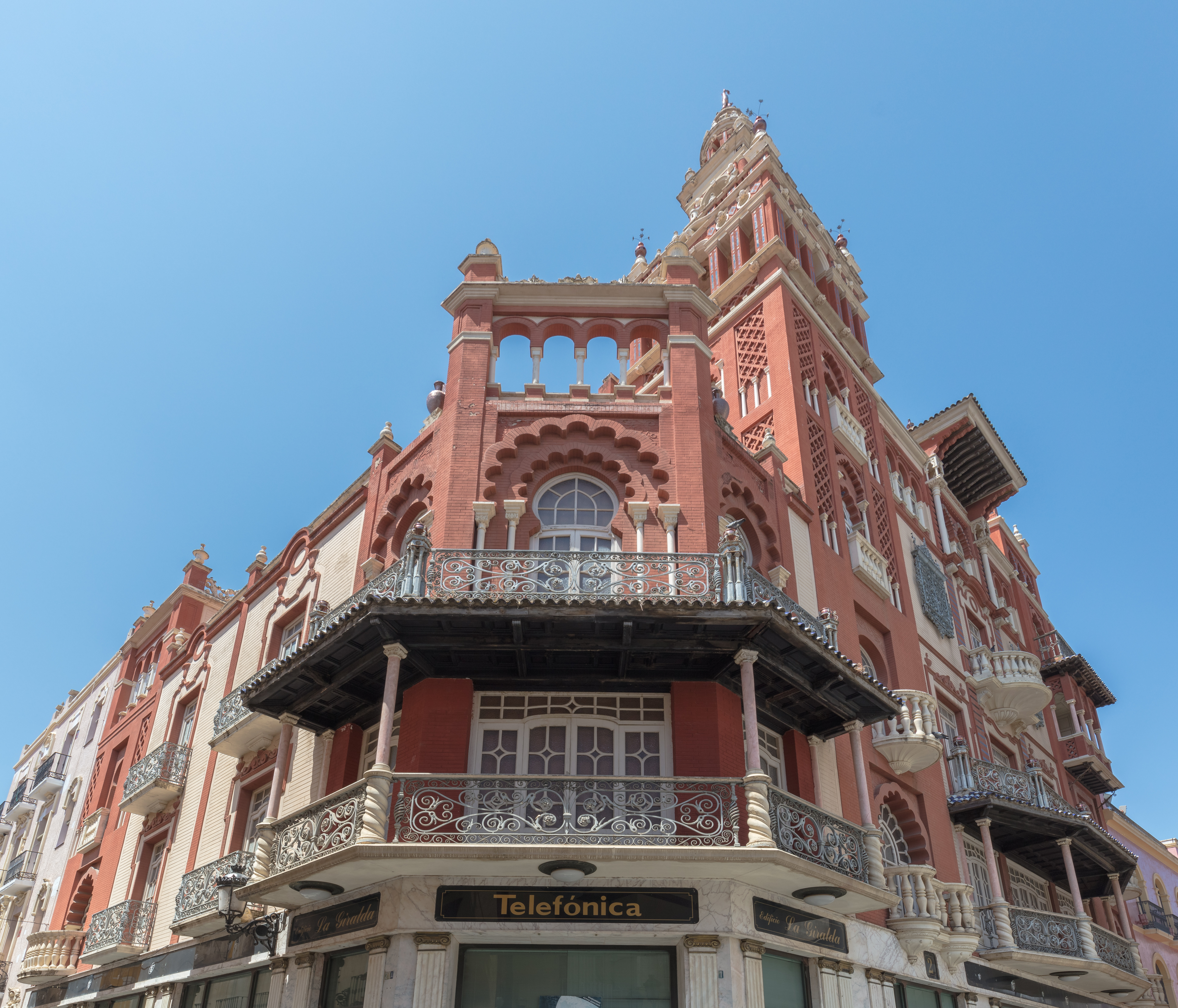 Giralda of Badajoz, Badajoz, Spain